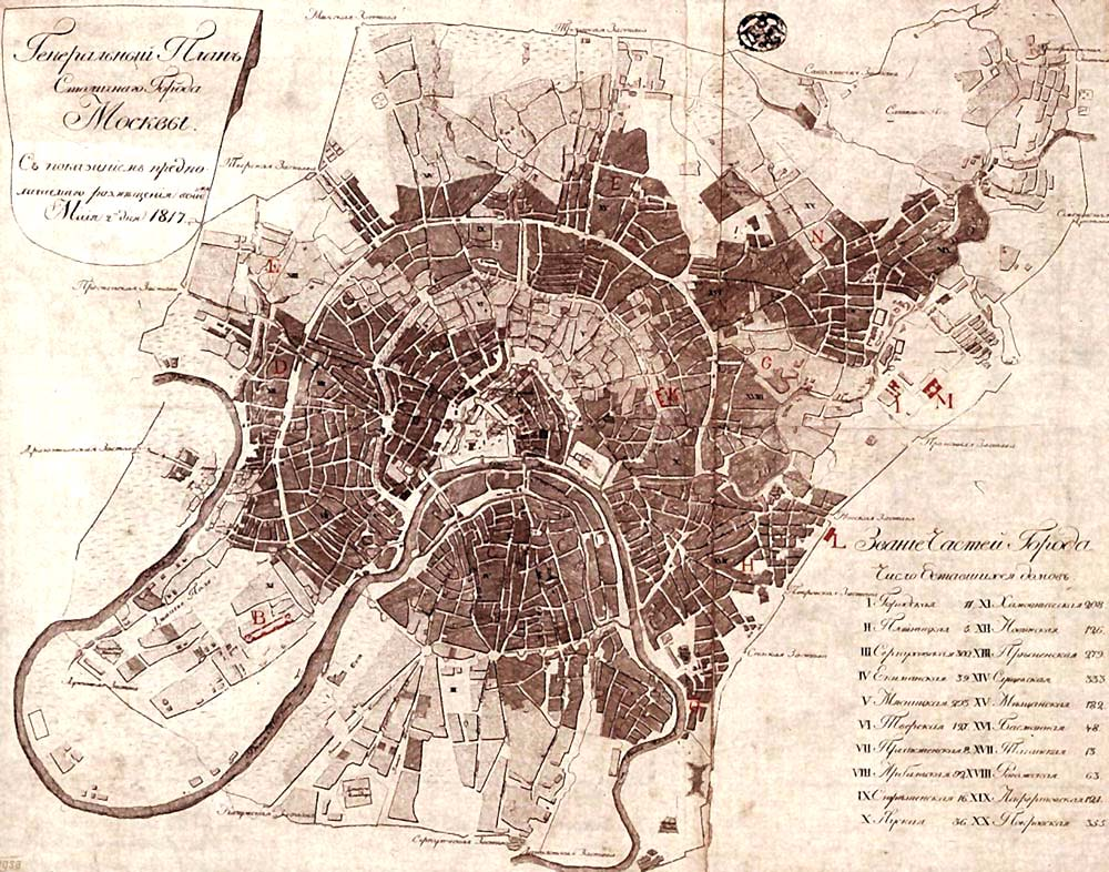 1817 map of Moscow showing the damage of Fire of Moscow (1812), in dark shade